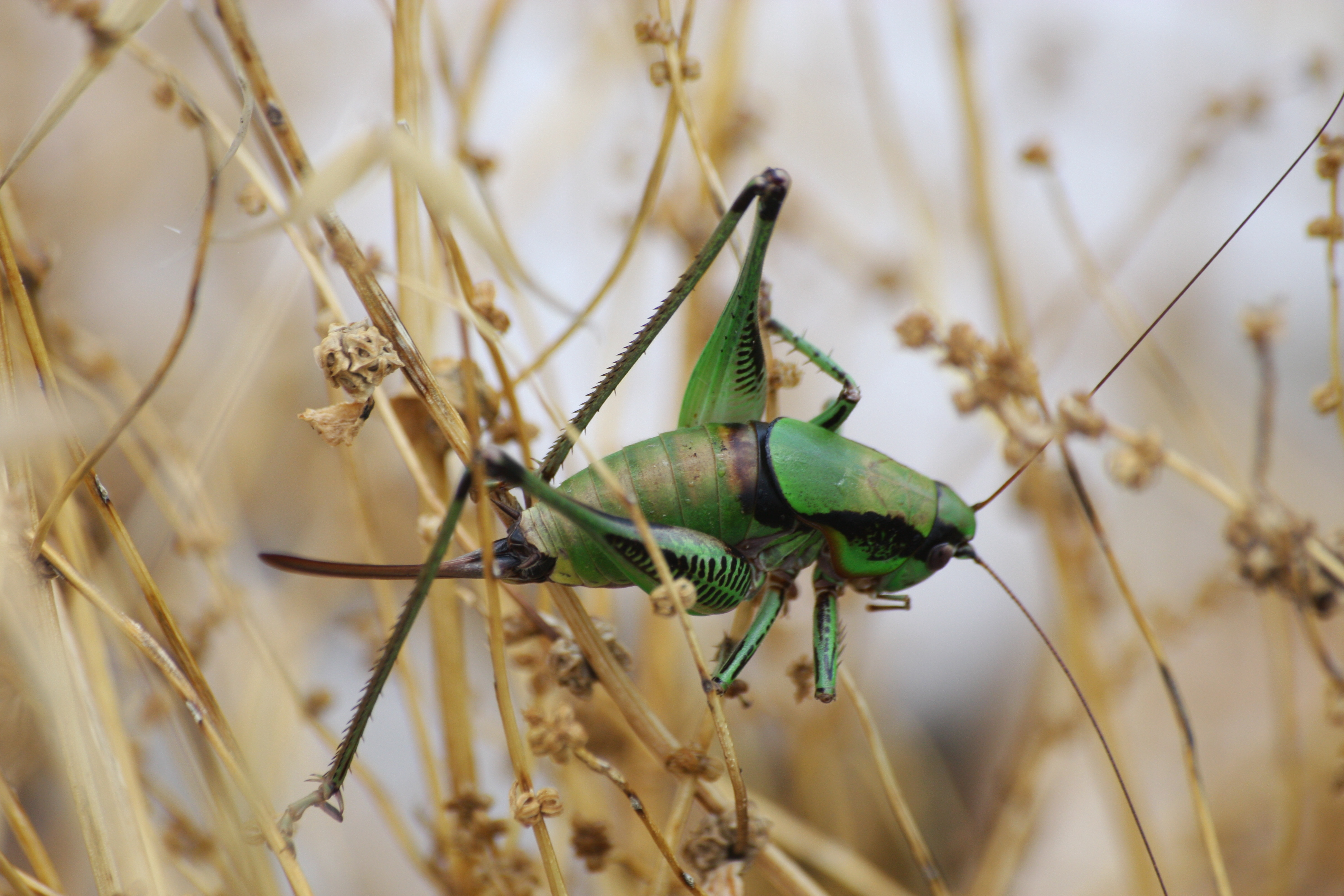 Eupholidoptera chabrieri, photo taken by the seaside at Istra peninsula, Croatia.